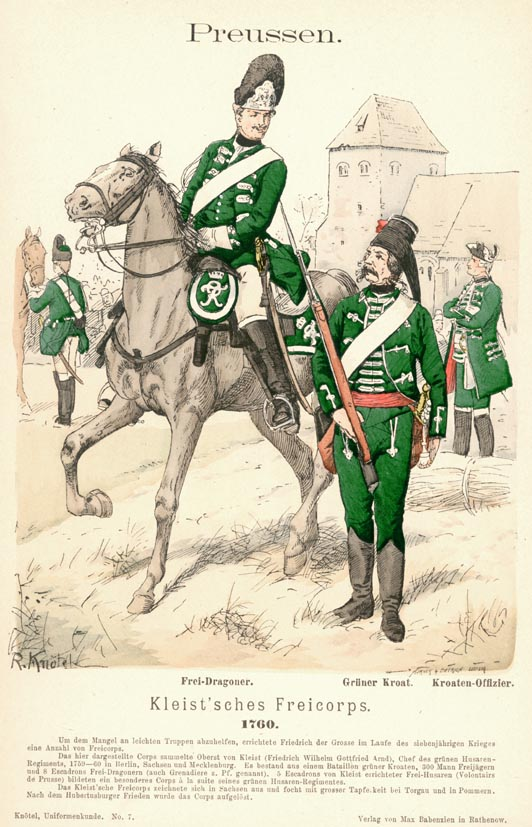 Preußen. Kleist'sches Freikorps. 1760